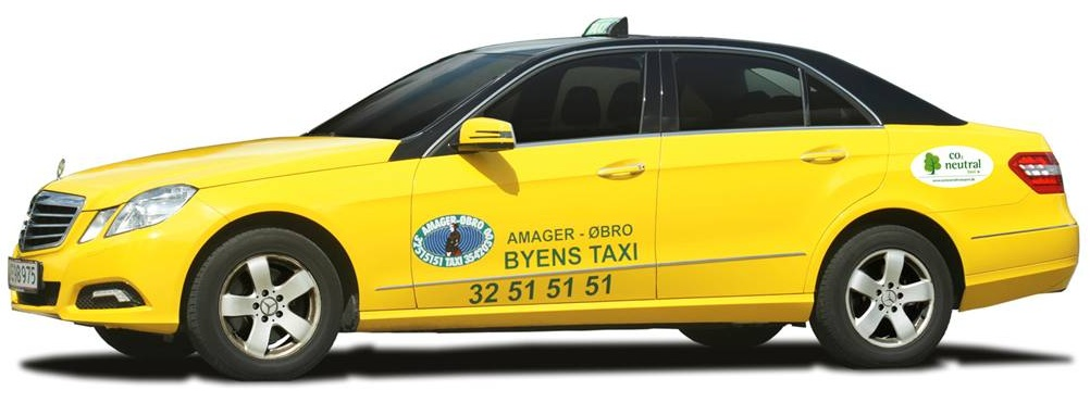 An Amager-Øbro Taxi in profile